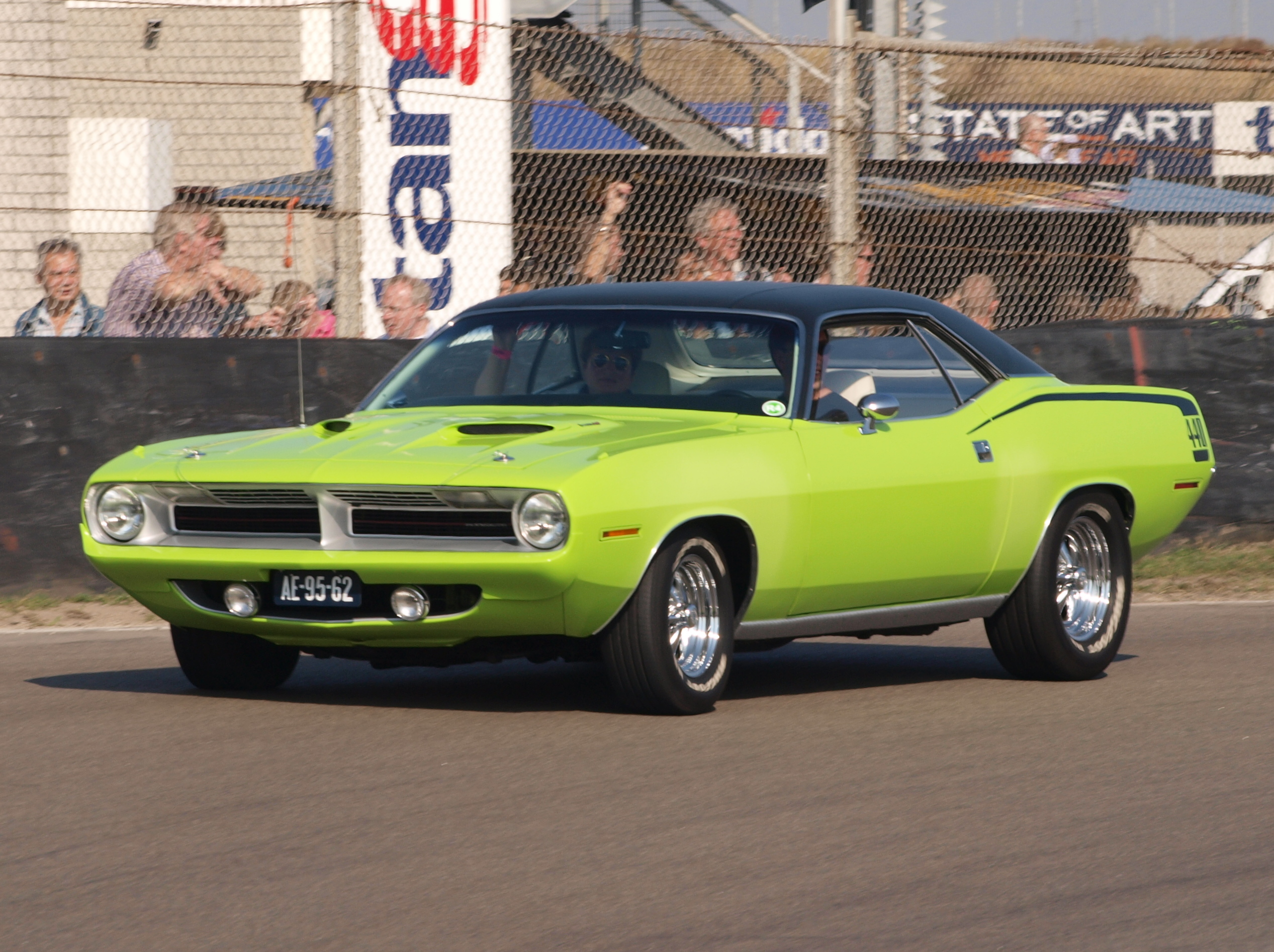 Photographed at the Nationaal Oldtimer Festival Zandvoort 2009, The Netherlands. OLYMPUS DIGITAL CAMERA